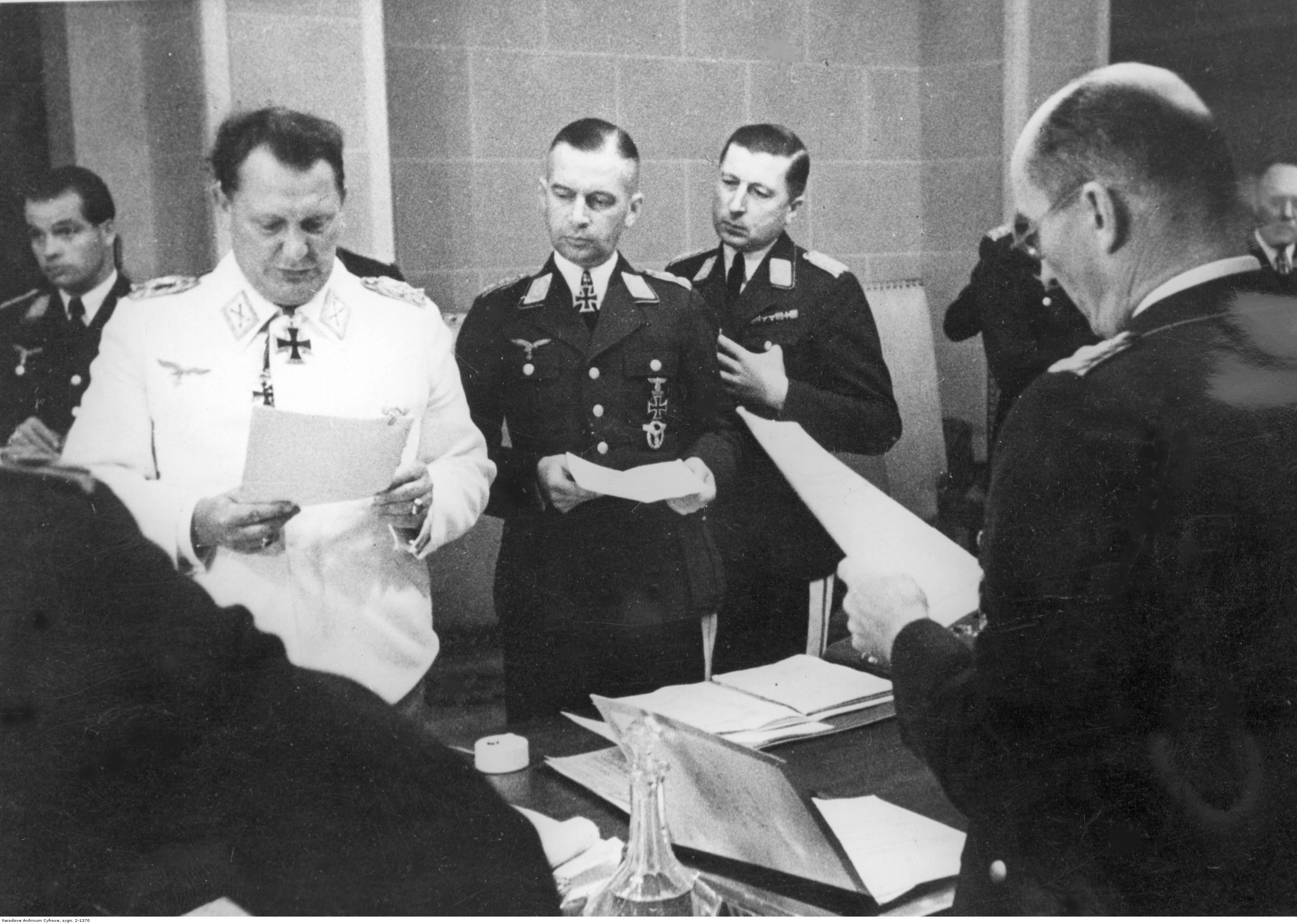 Issuing an order for German troops on the Eastern Front. Visible from the left: marshal Hermann Goring (in white uniform), general Hans Jeschonnek, general Otto von Waldau, general Gustaw Kastner-Kirdorf.